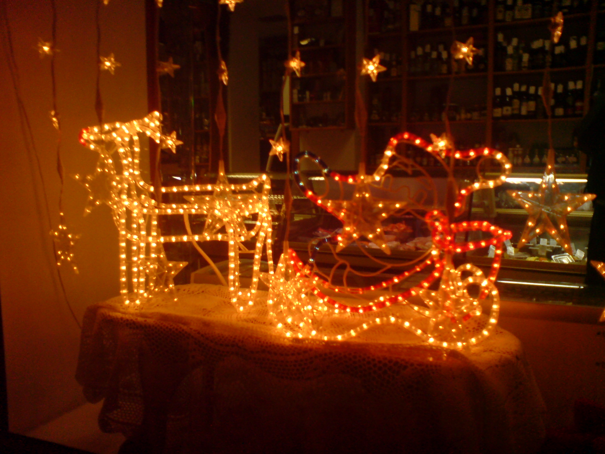 Rope light sculpture.